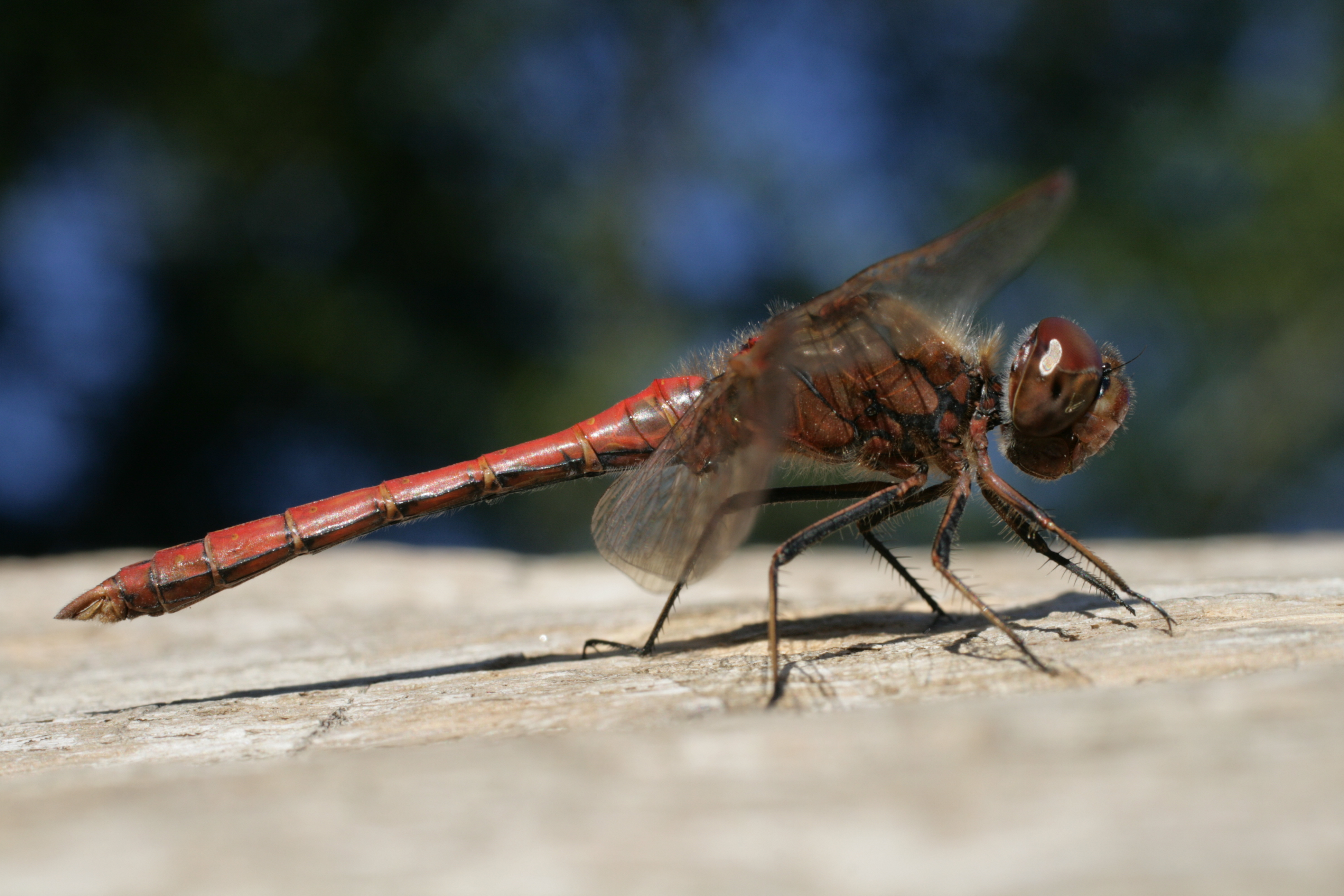 Male Sympetrum vulgatum.